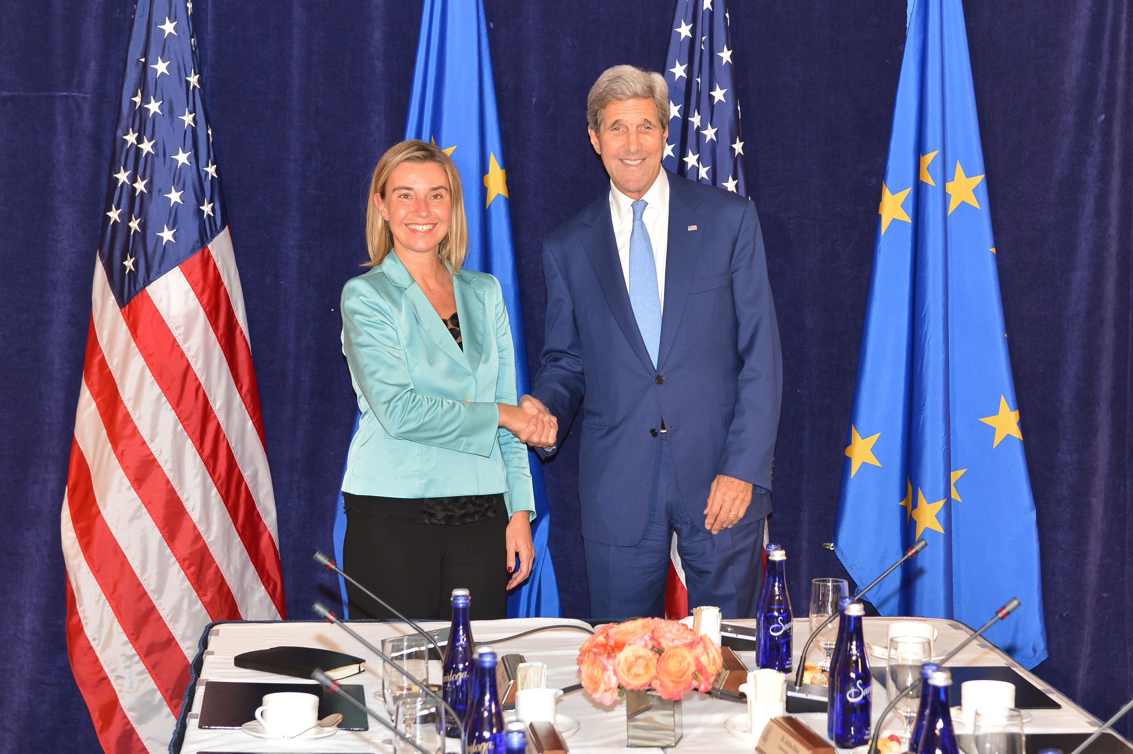 U.S. Secretary of State John Kerry meets with EU High Representative Federica Mogherini on the sidelines of the 70th Regular Session of the UN General Assembly in New York, New York, on September 30, 2015. [State Department photo/ Public Domain]